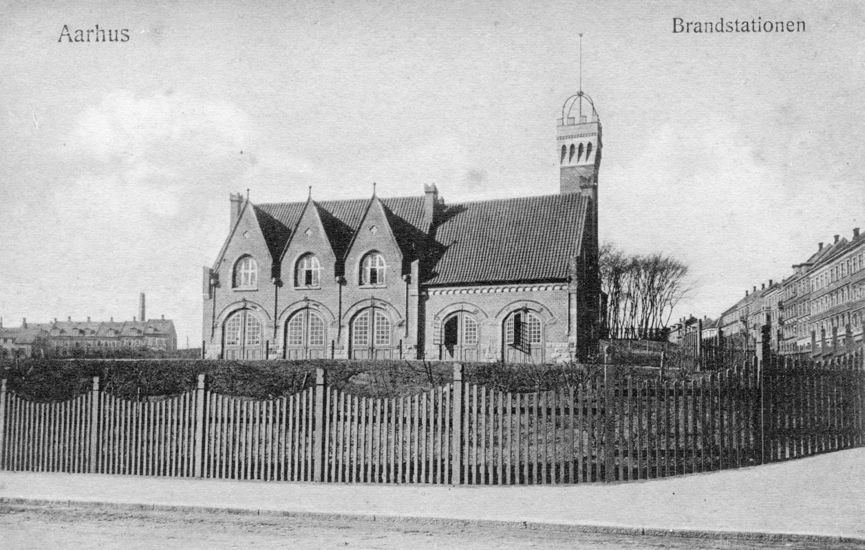 Aarhus Brandstation c. 1905